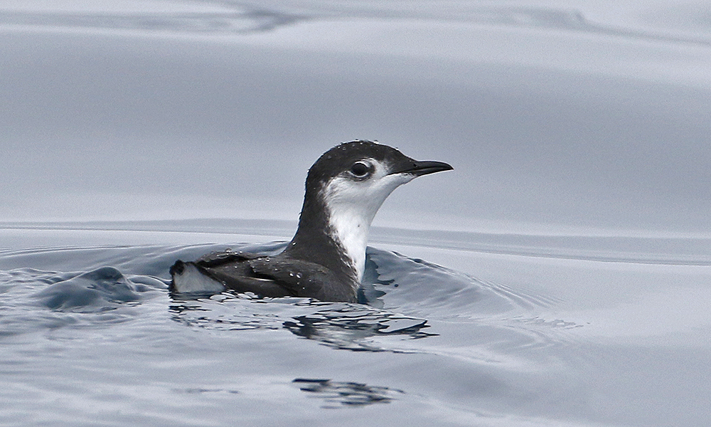 Guadalupe Murrelet (Synthliboramphus hypoleucus)